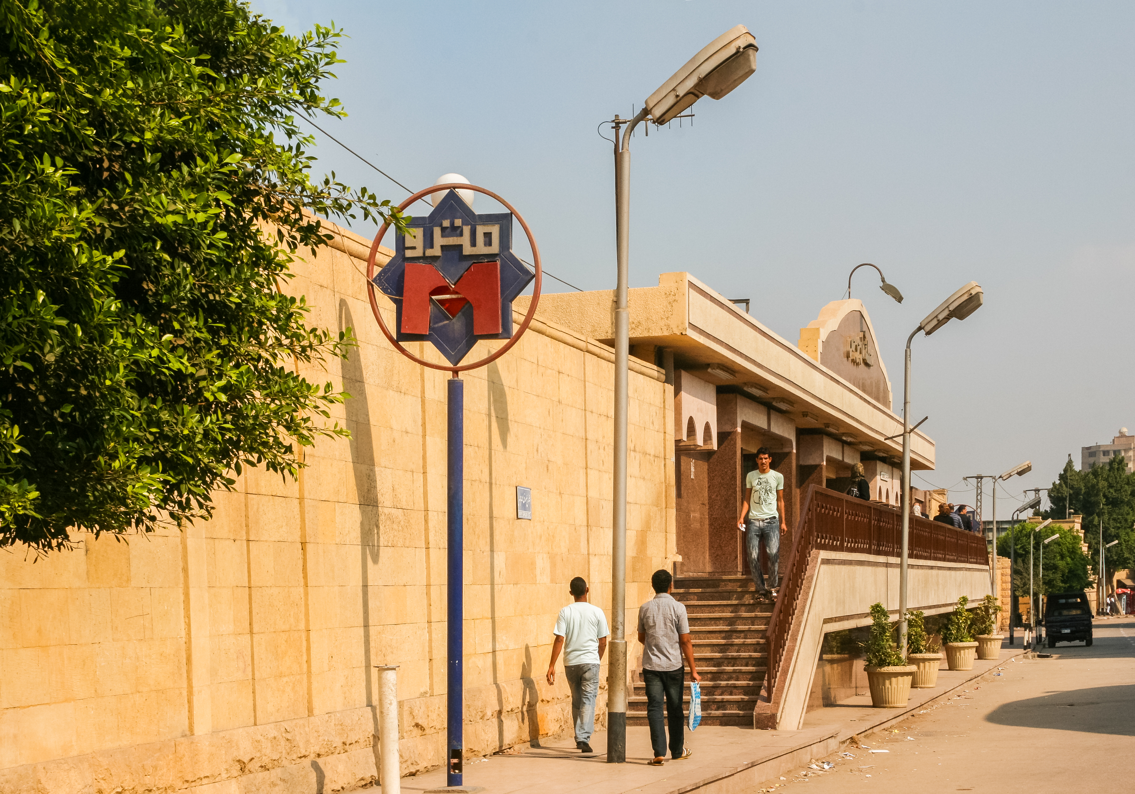 Cairo Metro Station in Old Cairo, Egypt